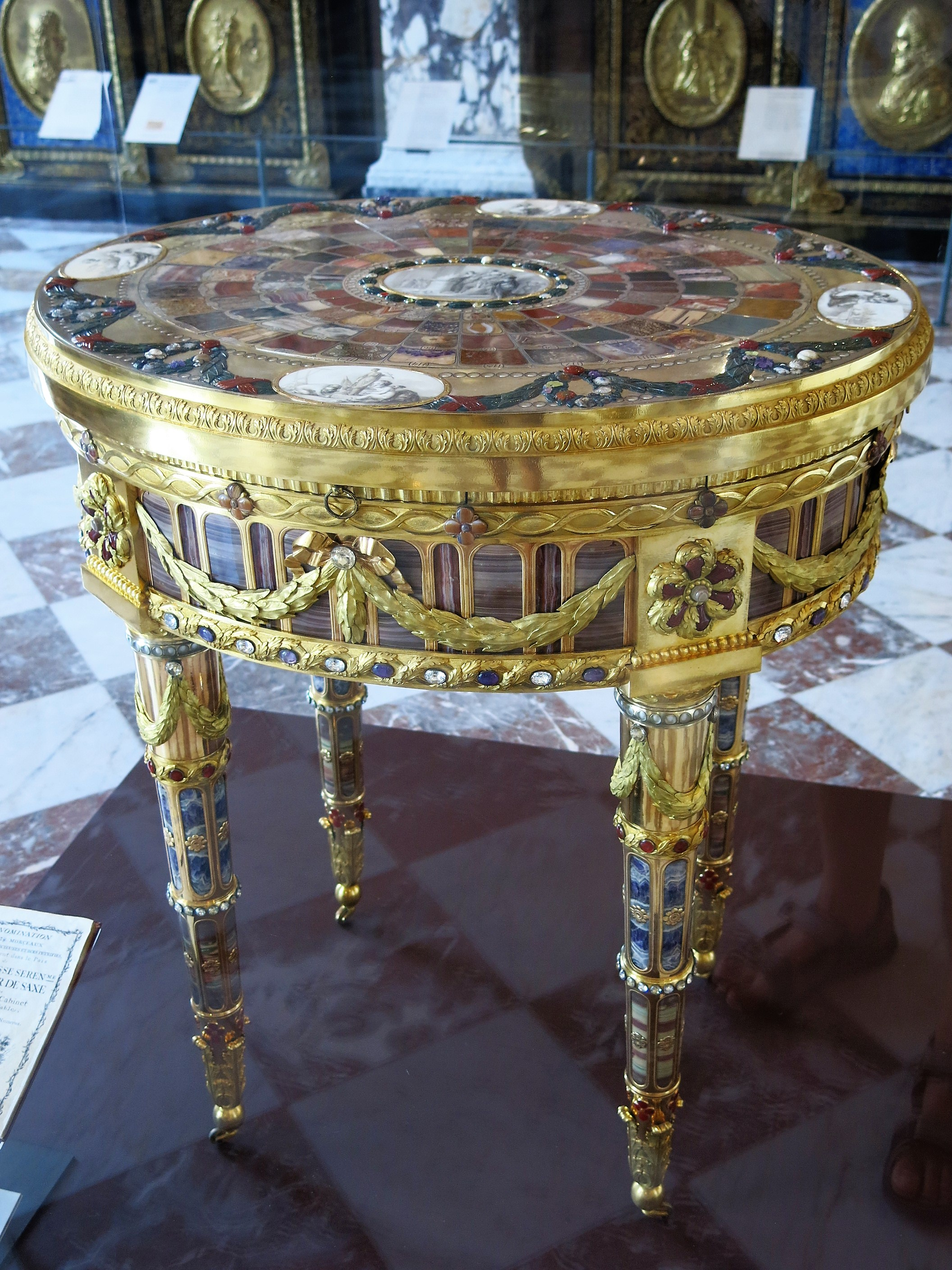 Table de Teschen in the Louvre museum (Paris, France).